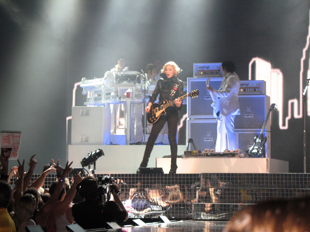 I Love NY on Confessions Tour